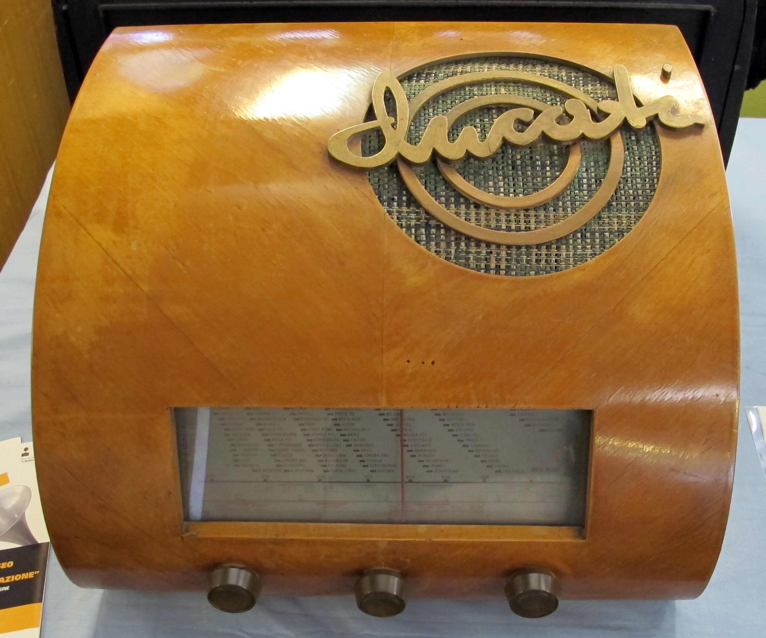 Antique radios amateurs exhibition (Florence 2014)